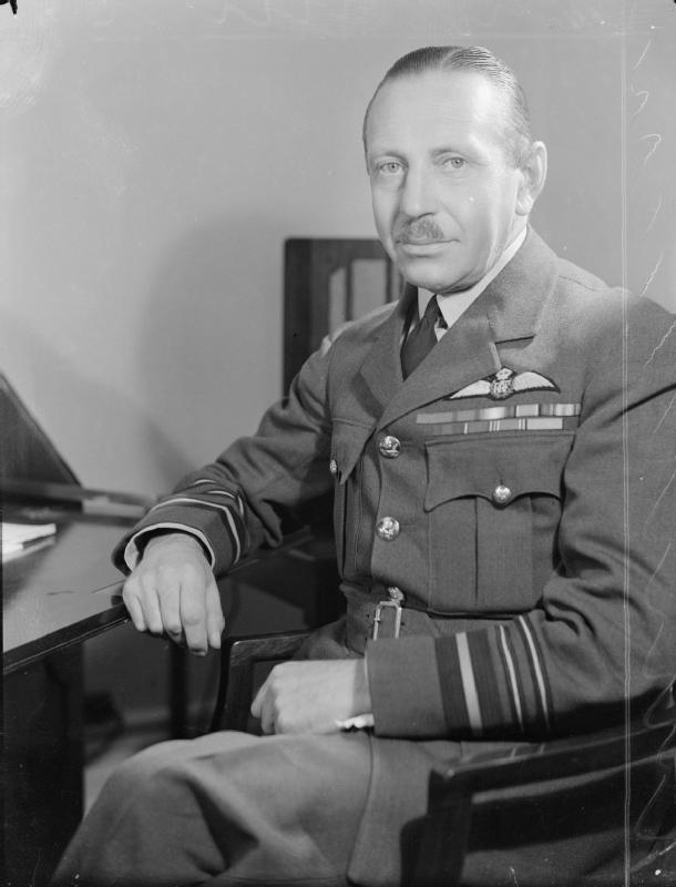 Royal Air Force- Fighter Command, Tactical Air Force, 1943-1945. Air Marshal J H D'Albiac, Commander, Tactical Air Force, photographed at TAF Headquarters, 'Ramslade' Bracknell, Berkshire.